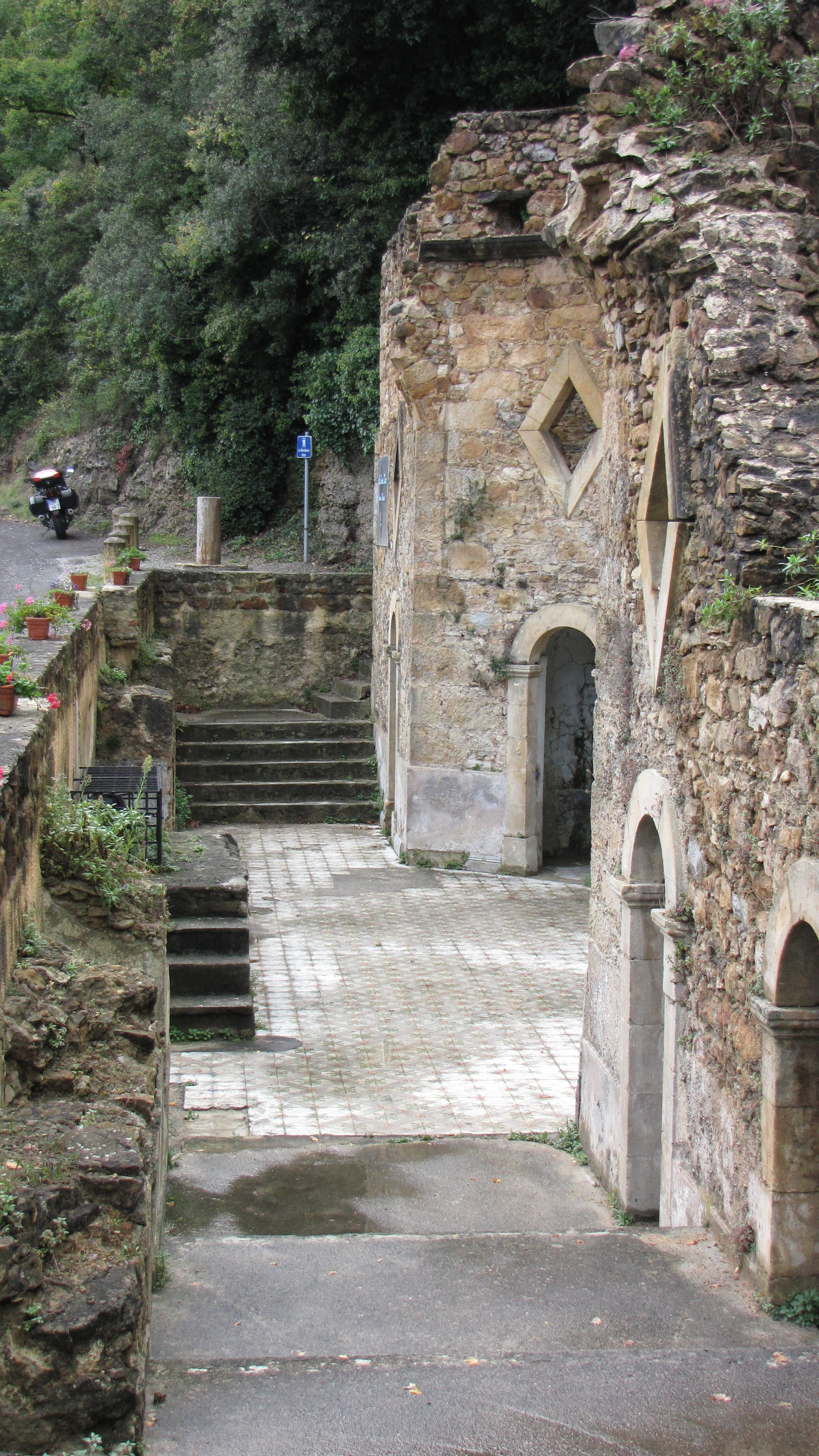 Health spa near Rennes-les-Bains